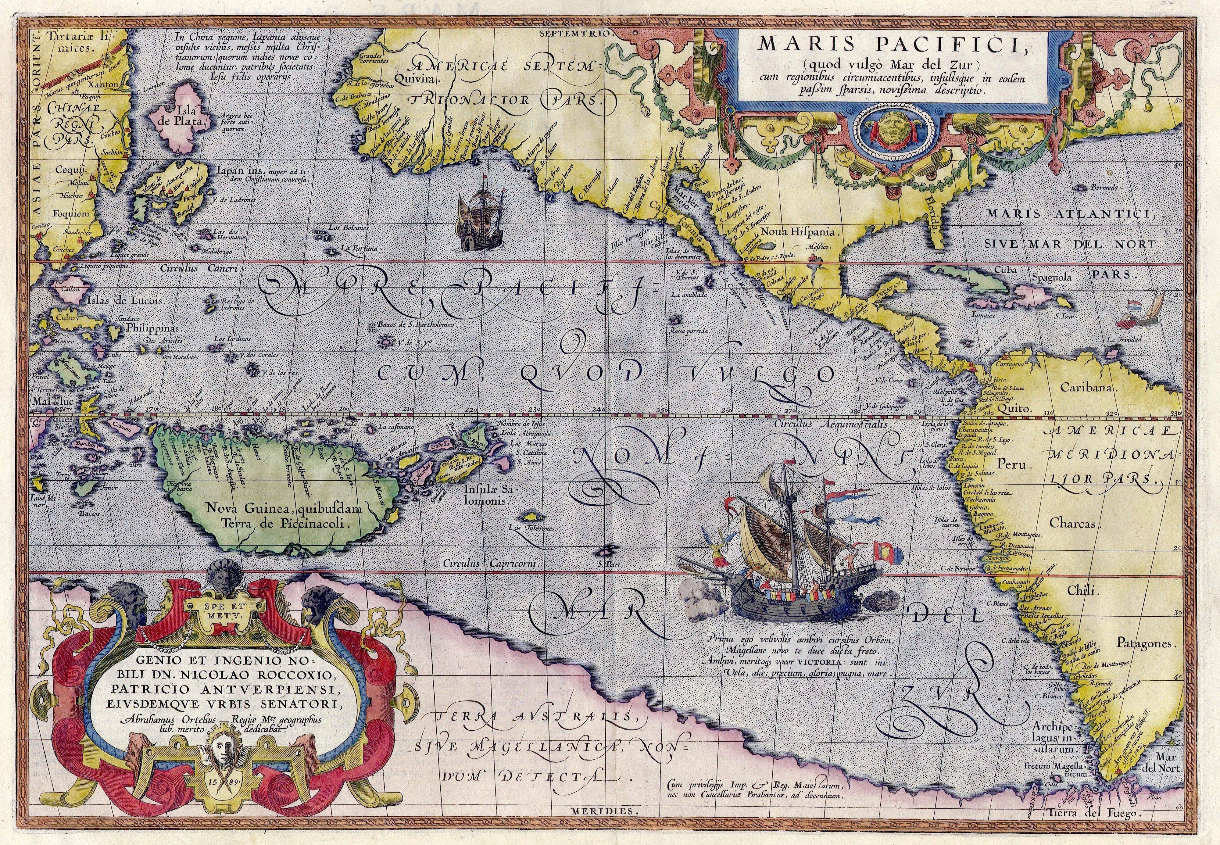 Maris Pacifici by Abraham Ortelius. This map was published in 1589 in his Theatrum Orbis Terrarum. It was not only the first printed map of the Pacific, but it also showed the Americas for the first time.